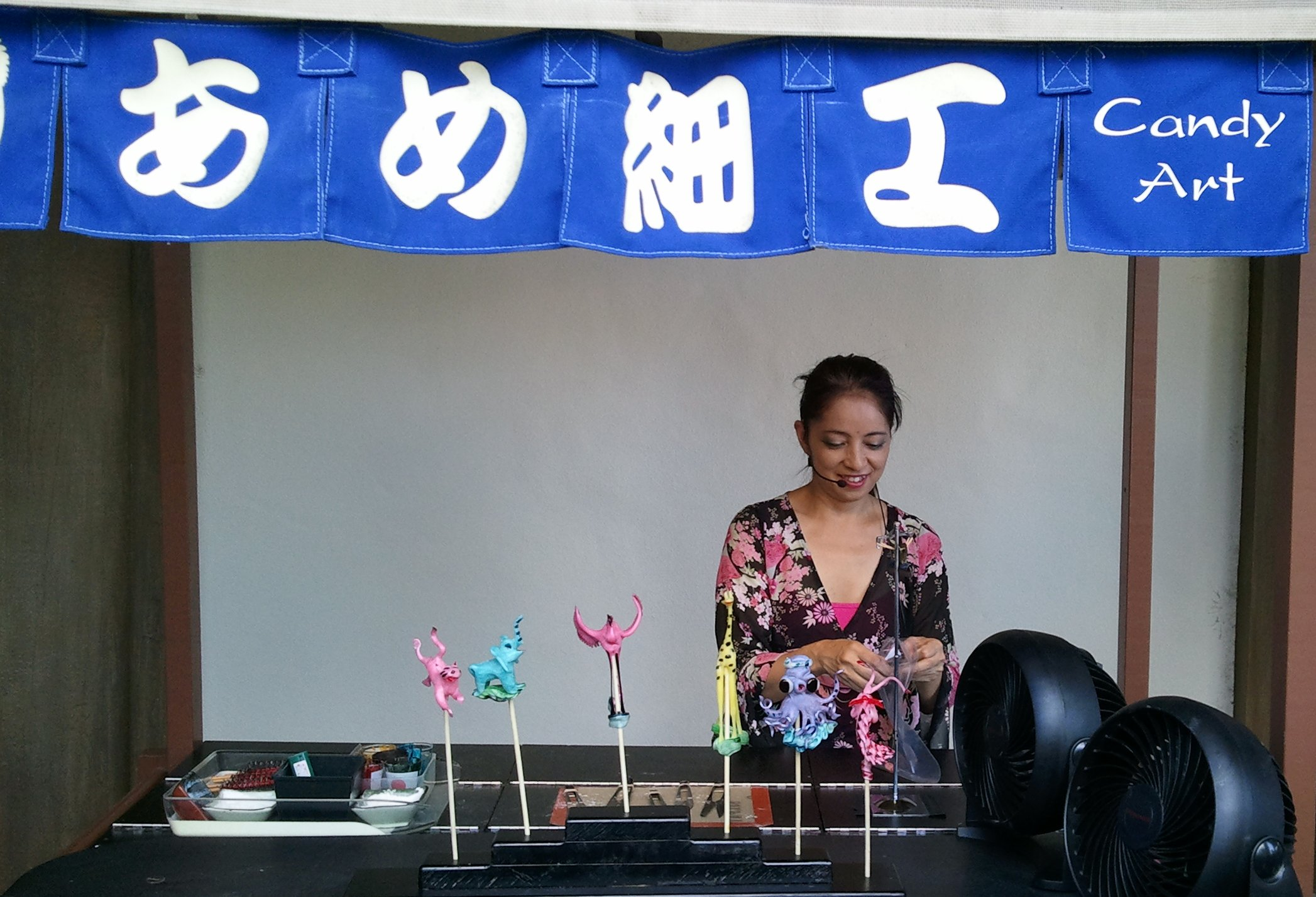 Amezaiku is the Japanese art of candy sculpture